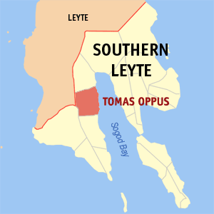 Map of Southern Leyte showing the location of Tomas Oppus